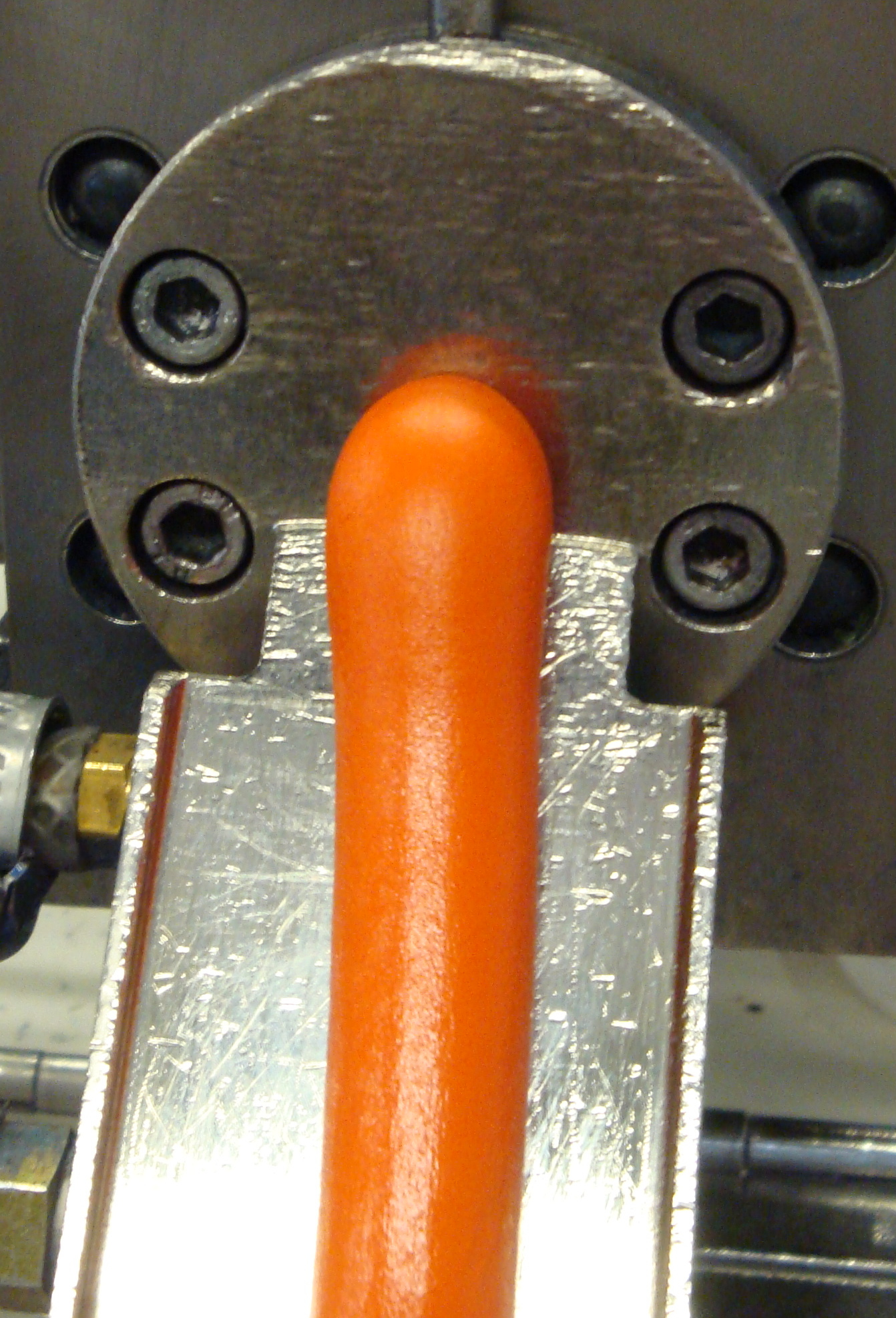 Melted powder coating at the extruder nozzle